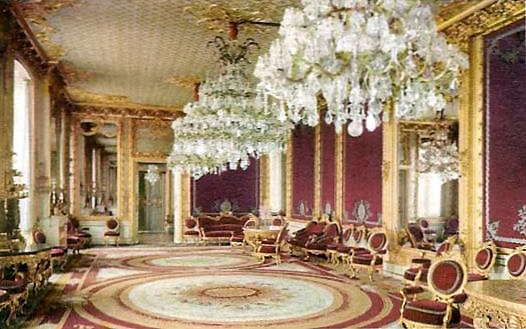 Postcard - Victoria Salon